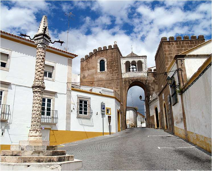 Elvas square with pillory